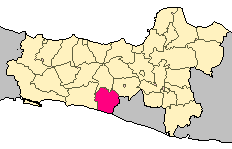 Location of Purworejo county in Central Java province, Indonesia